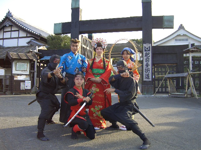 Hizen Yume Kaido, a historical theme park which reproduces Ureshino Town during the Edo Period.